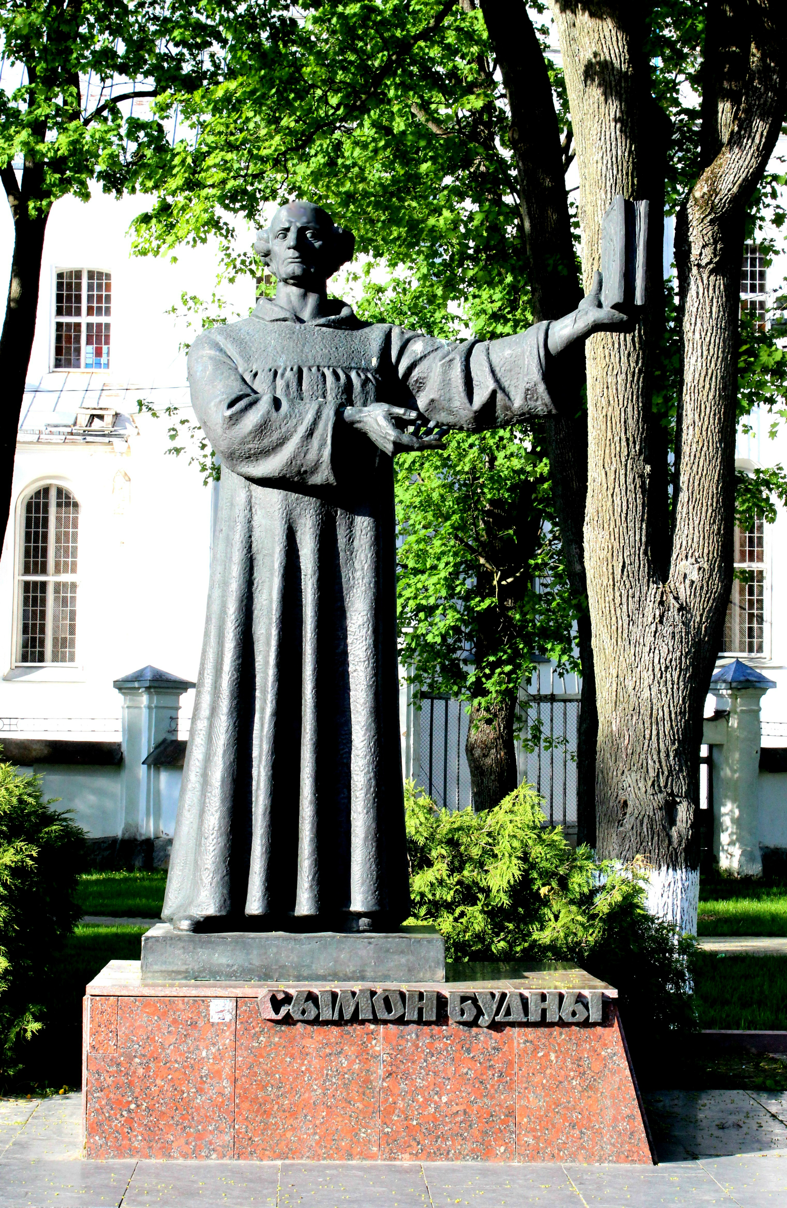 Monument of Simon Budny in Nesvizh. Sculptor Svetlana Gorbunova, 1982